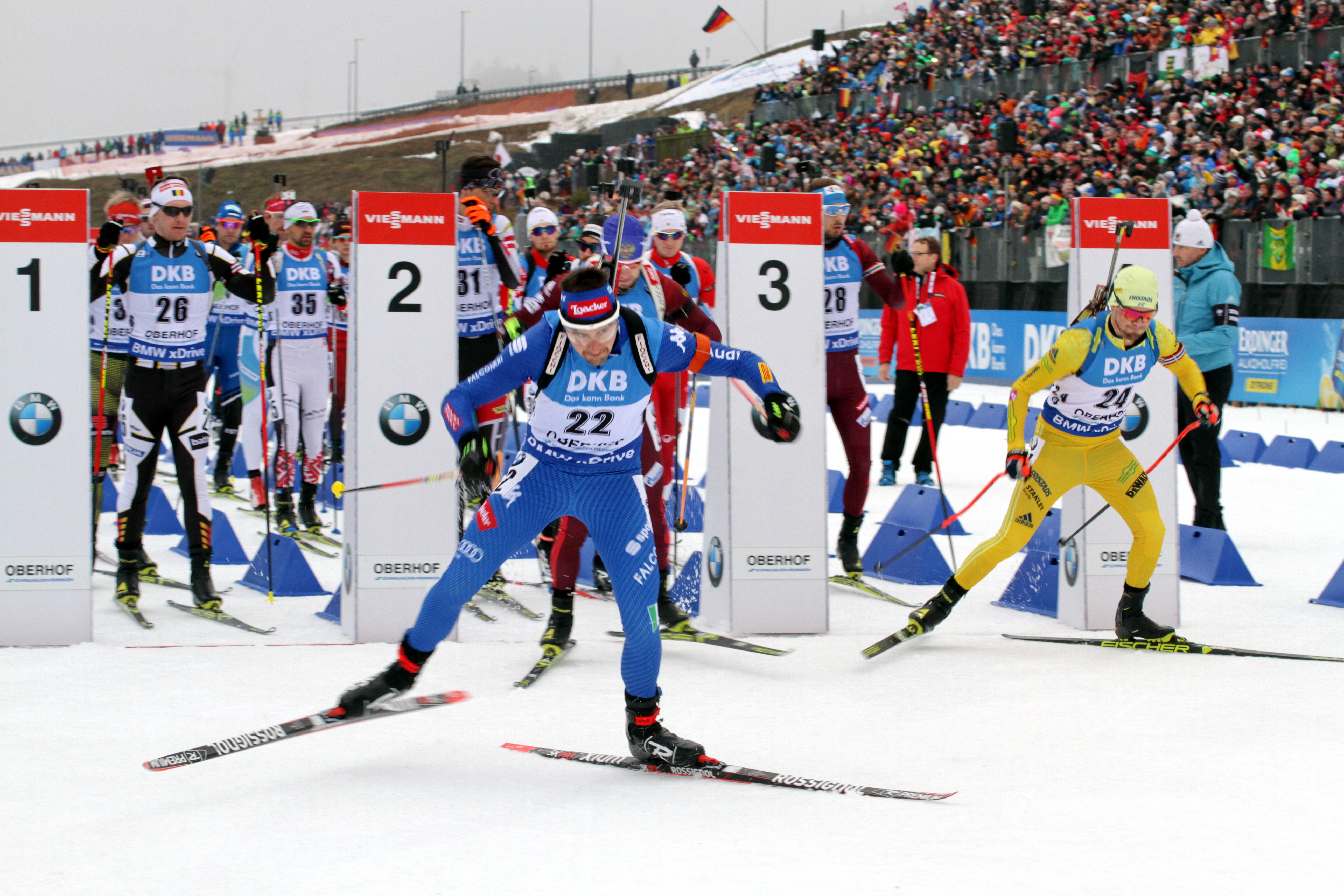 2018 Oberhof Biathlon World Cup - Pursuit Men